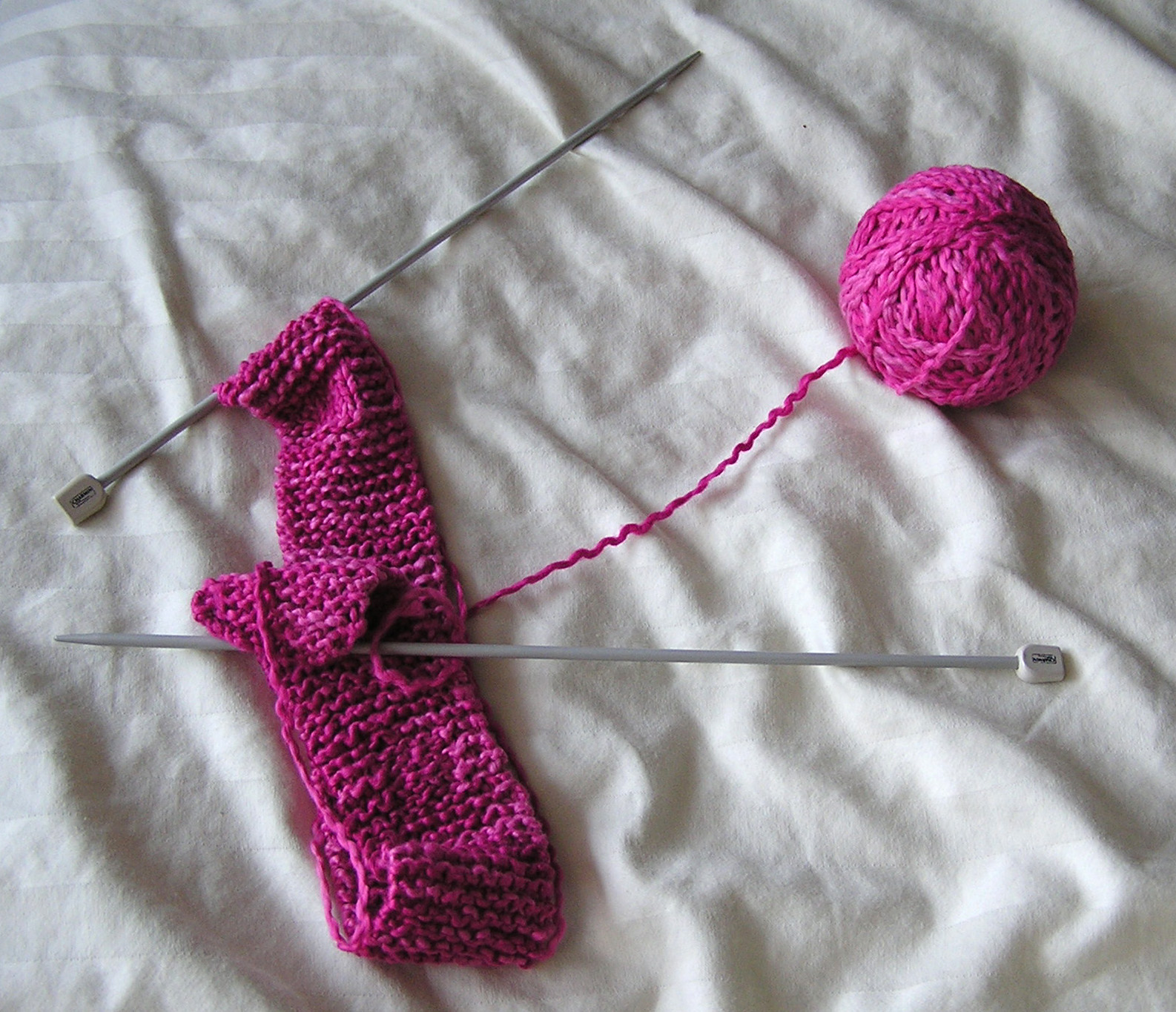 Simple pink knitting on single-ended needles.